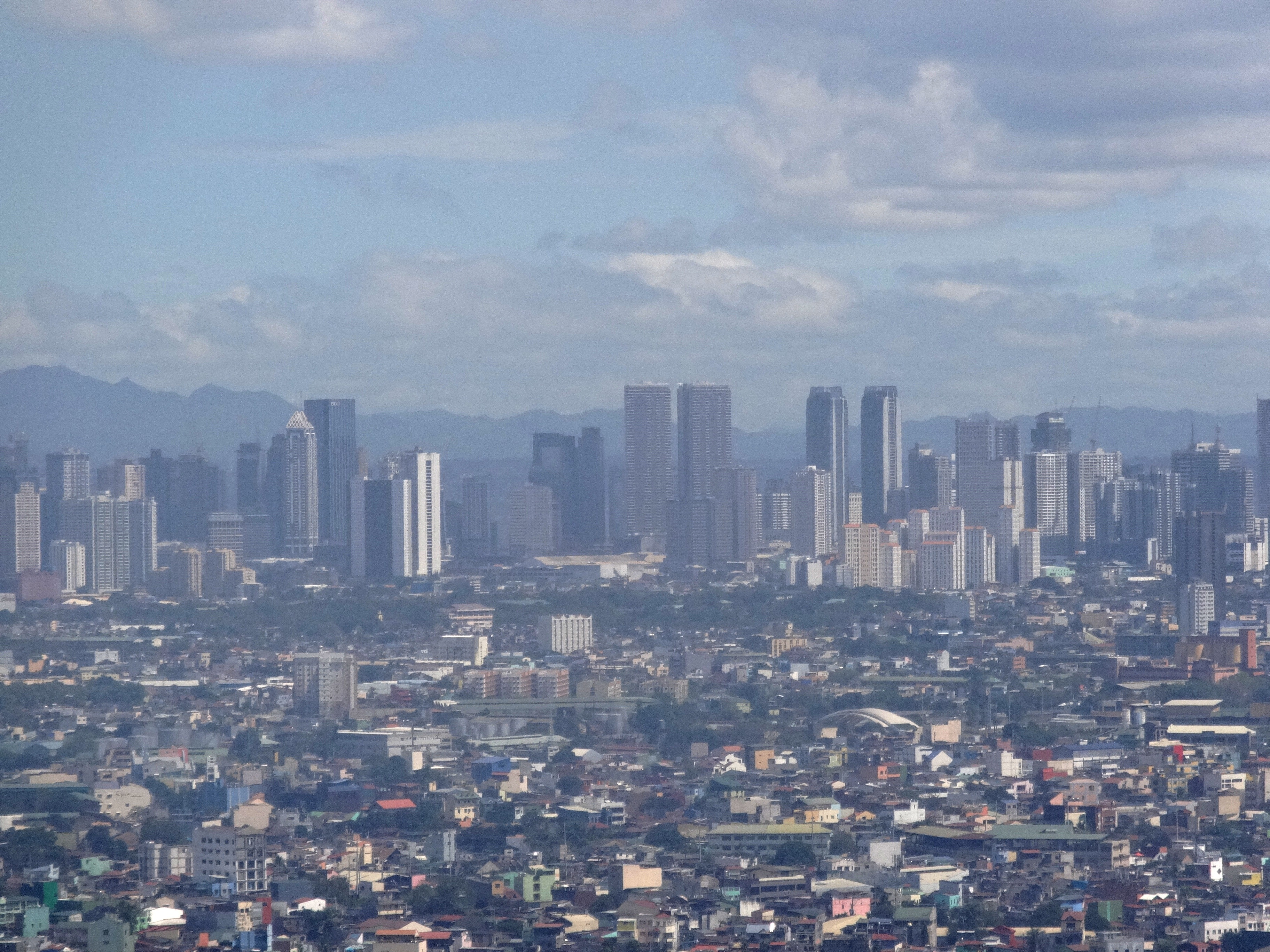 View of Ortigas-Mandaluyong skyline from Malate, Manila